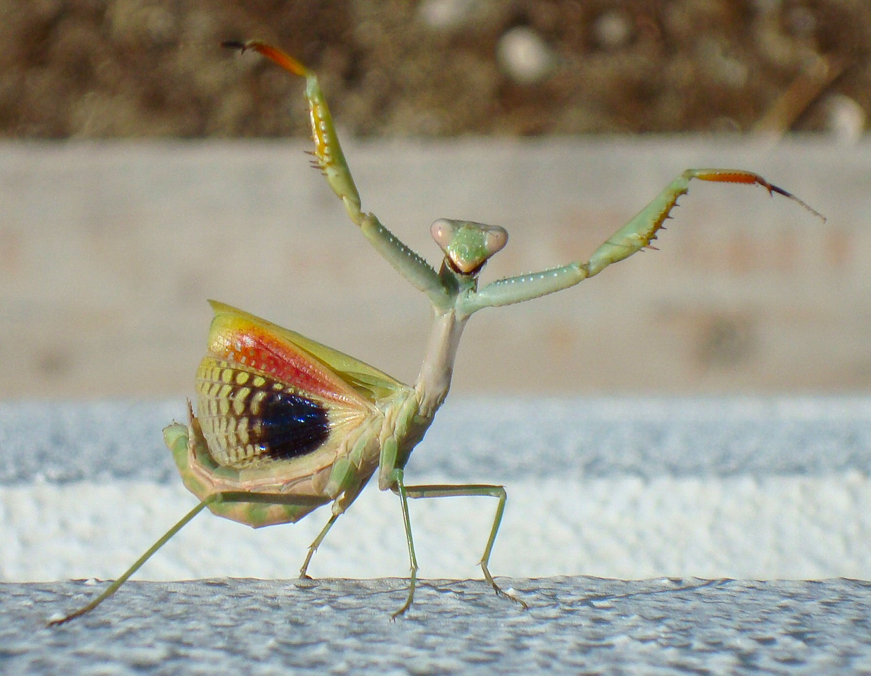 Praying mantis (Iris oratoria, female) in defensive posture. Photographed in Kolymbia, Rhodes.